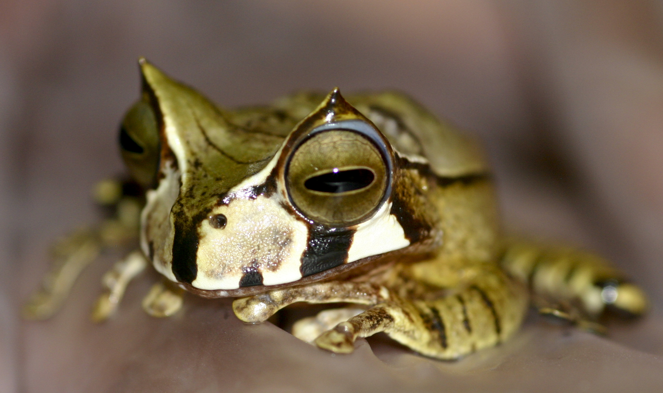 Gastrotheca cornuta